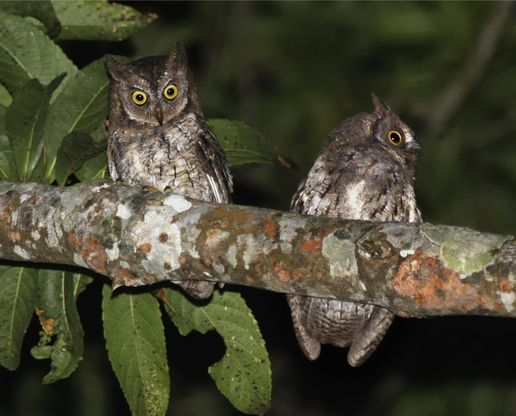 Rinjani Scops Owl Otus jolandae, Lombok, August 2008 (Philippe Verbelen).